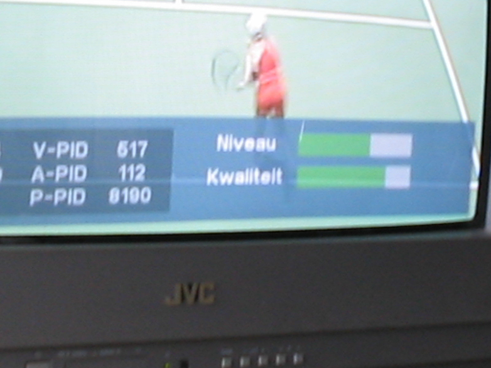 Beschrijving: instellen kwaliteit satellietontvangst via ontvanger en on-screen display Auteur: M.Minderhoud Licentie: eigen werk, gfdl